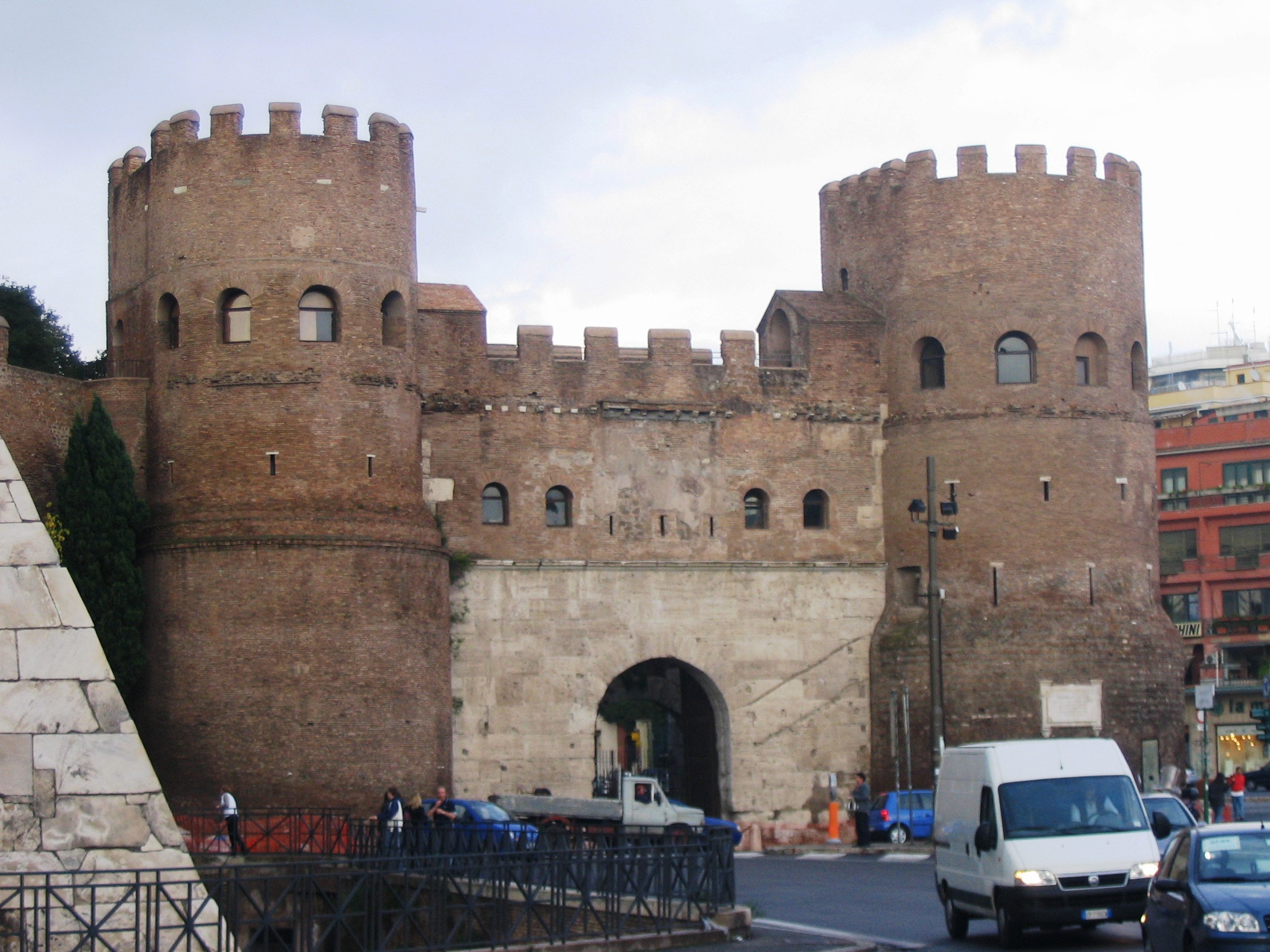 Roma, Porta San Paolo